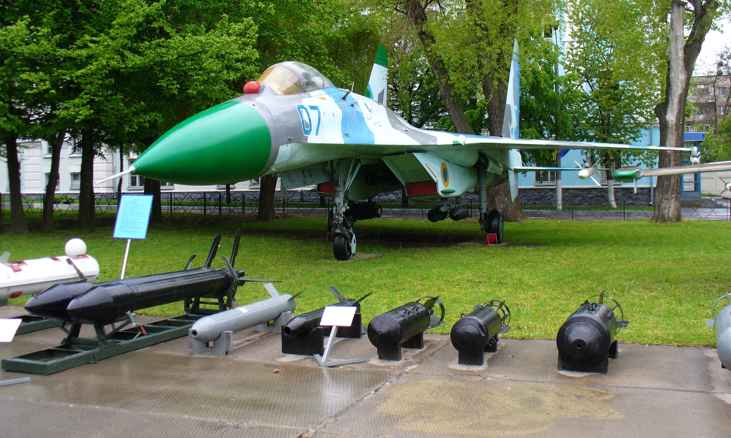 The Sukhoi Su-27 (NATO reporting name "Flanker"). Ukrainian Air Force Museum in Vinnitsa.